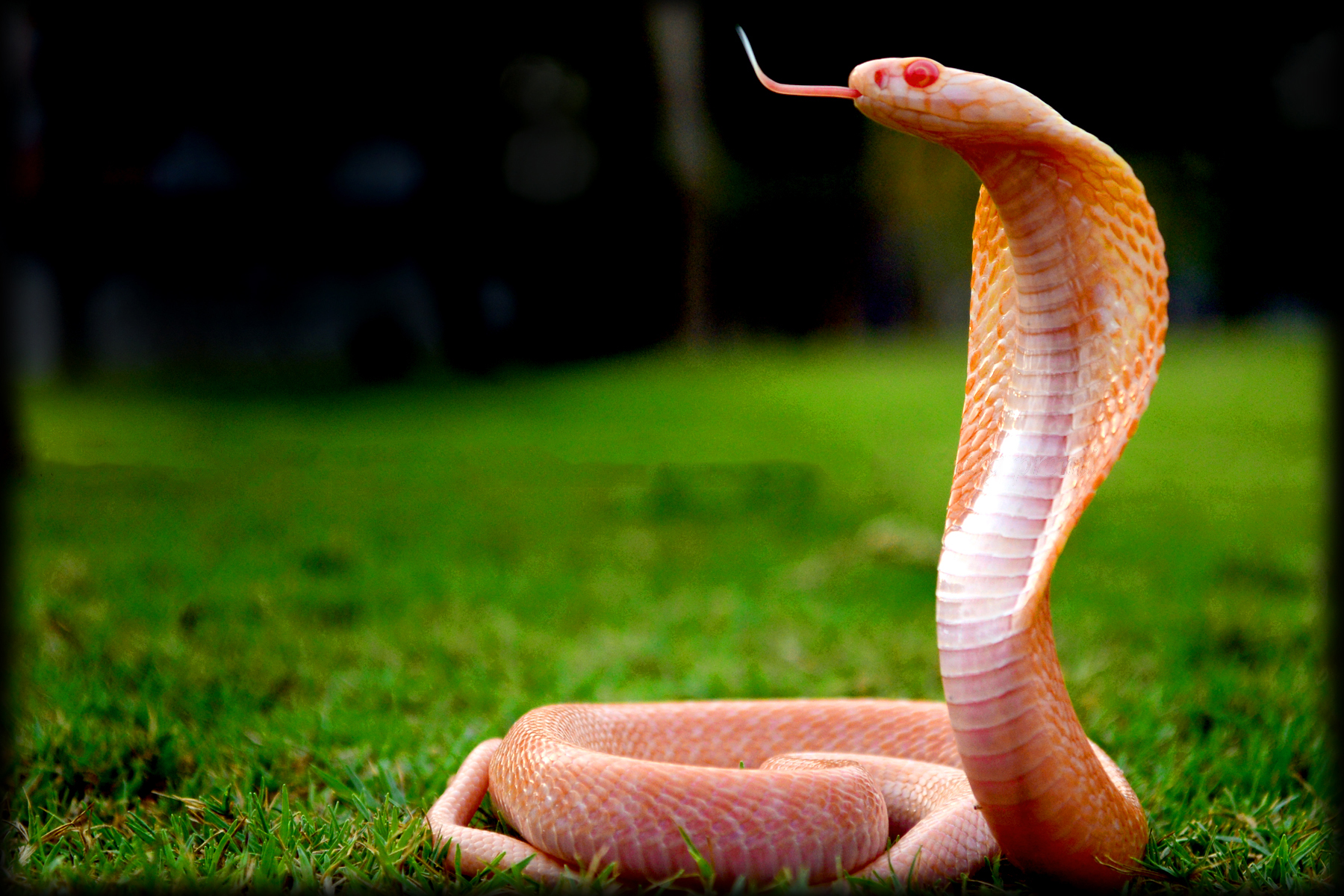 Albino specticled cobra